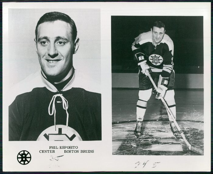 Photo of Phil Esposito as a member of the Boston Bruins.